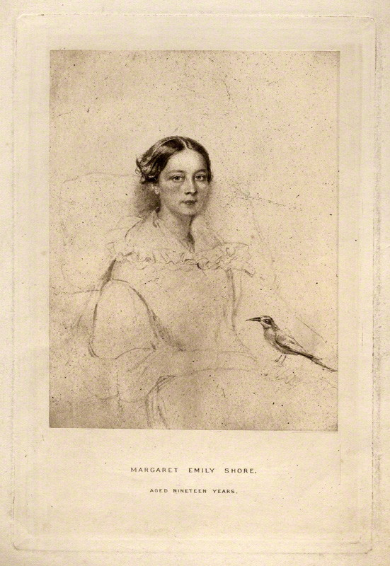 Margaret Emily Shore after Unknown artist, engraving, late 19th century (circa 1838)